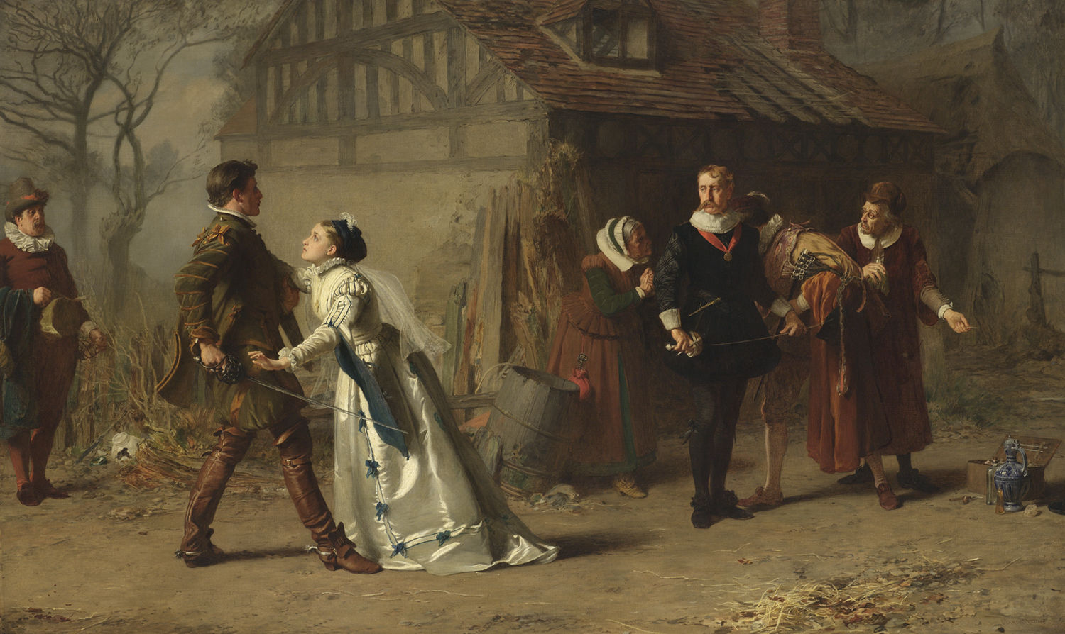 AN INTERRUPTED DUEL (c. 1868 United Kingdom) by MARCUS STONE RA (1840-1921)